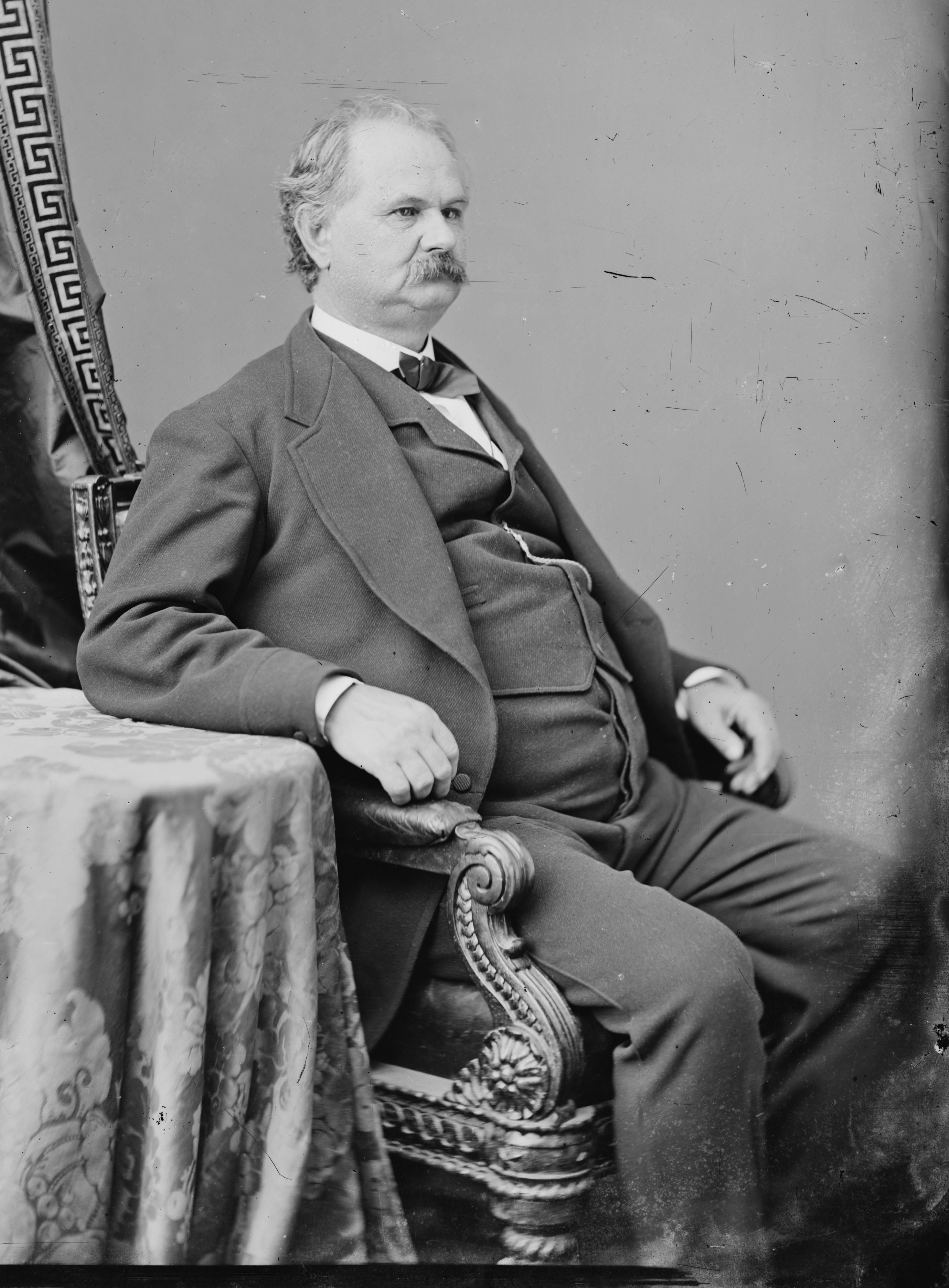 Coles Bashford. Library of Congress description: "Hon. Coles Bashford"